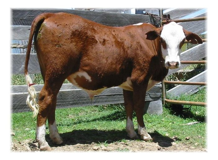 An Australian Braford steer.